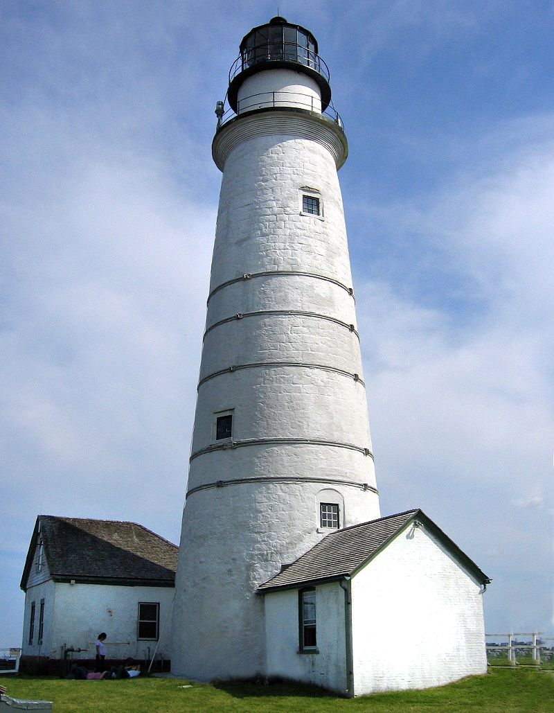 Boston Light lighthouse on Little Brewster island.